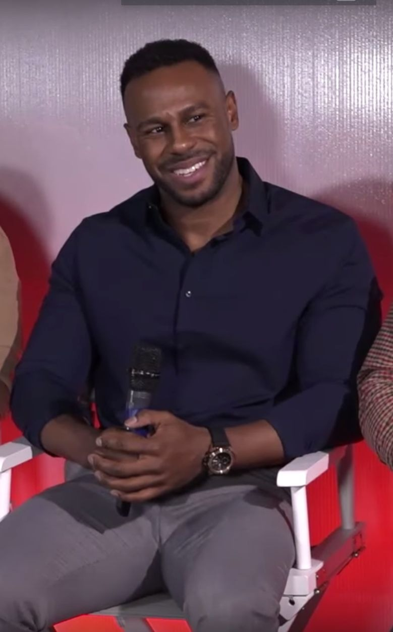 Man Talk: The Quiet Storm Ask LaVan Davis, Tyler Lepley & Eltony Williams Relationship Questions